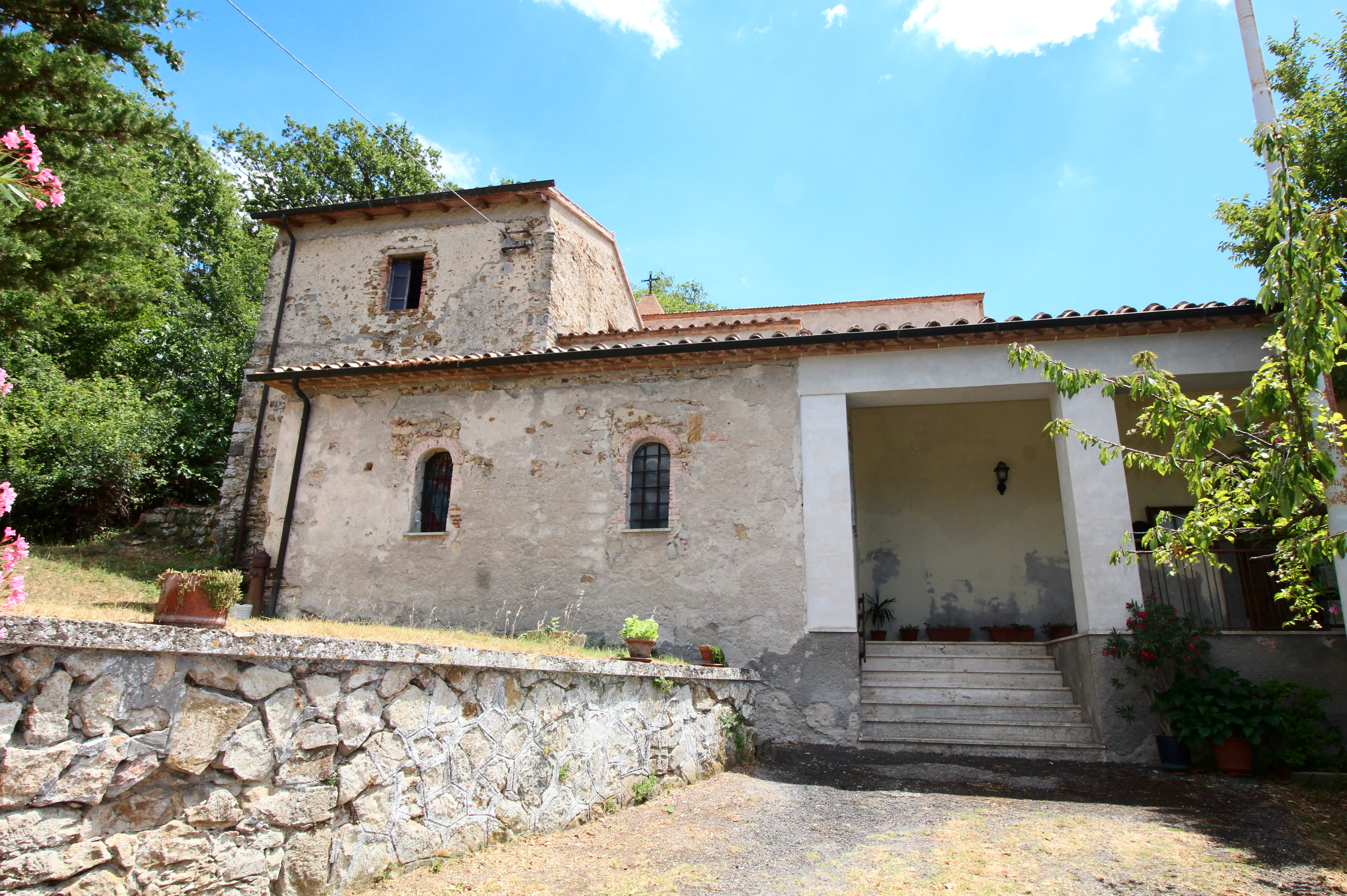 Church Sant'Andrea, in Montebuono (Appalto), hamlet of Sorano, Province of Grosseto, Tuscany, Italy